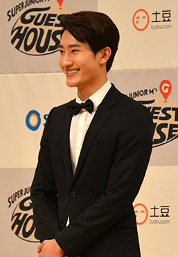 Super Junior-M's Zhou Mi.조선말: 슈퍼주니어-M 조미.中文（中国大陆）: Super Junior-M 周覓.